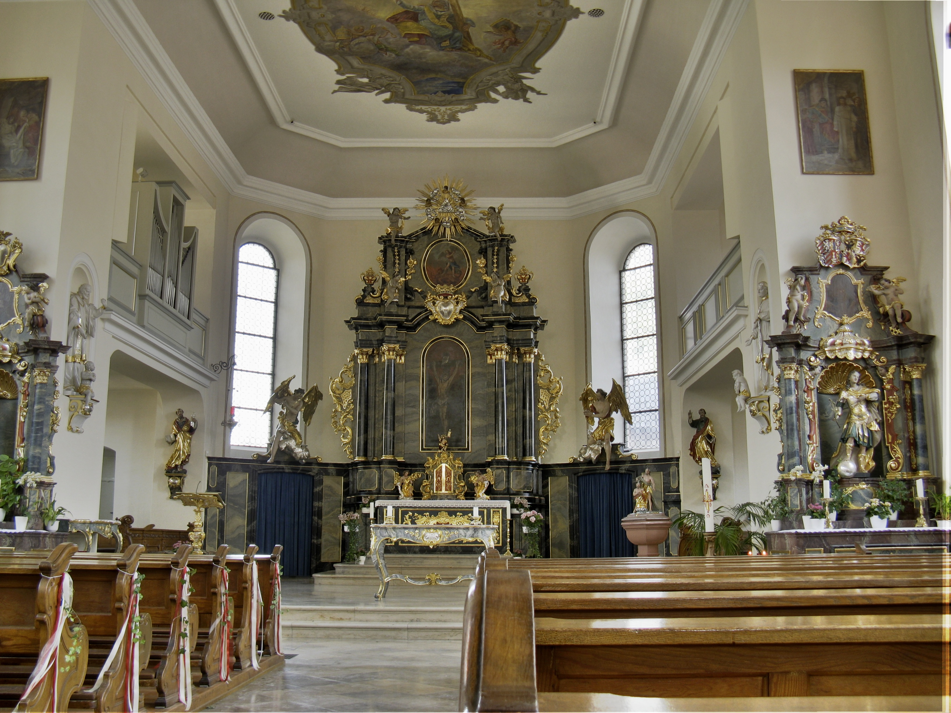 Church St. Pankratius, Schwetzingen, Germany (interior), HDR